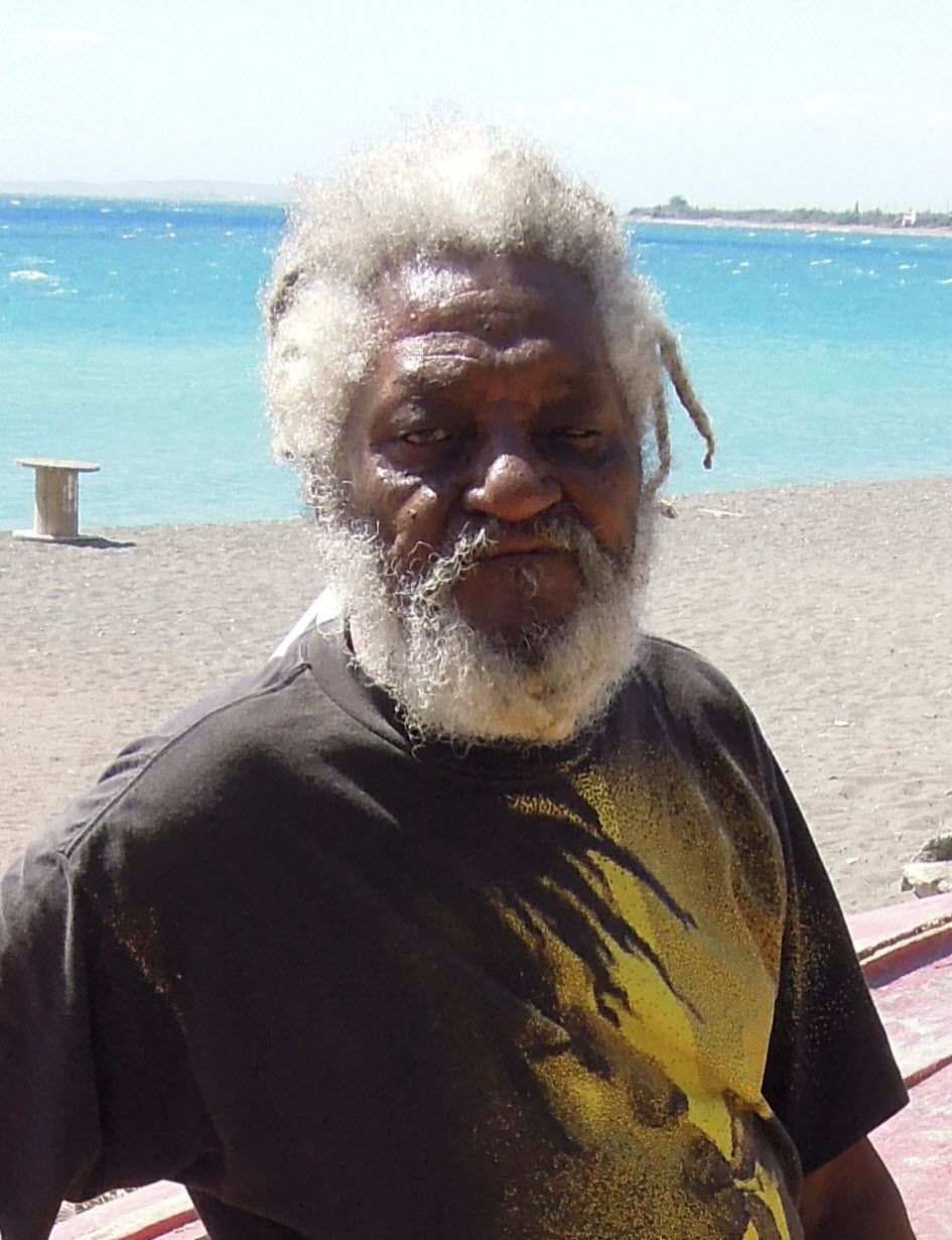 Alvin "Seeco" Patterson at Bull Bay, outside Kingston, Jamaica, February 2012.